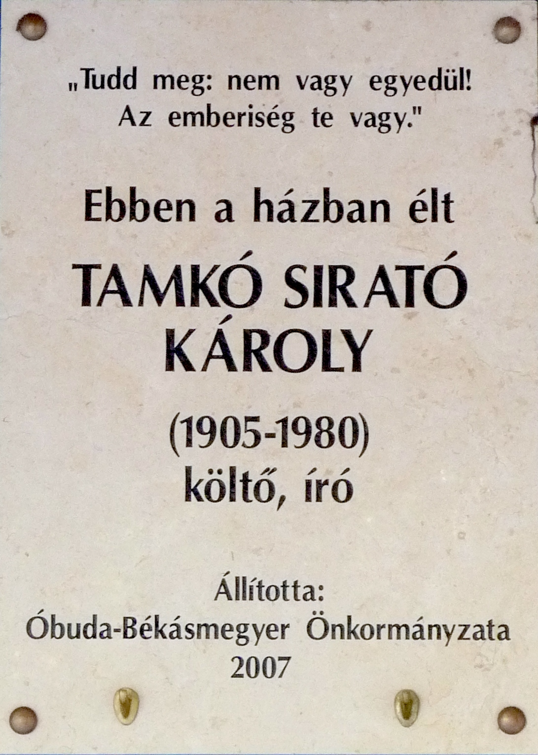 Commemorative plaque to Mr. Károly Tamkó Sirató (1905-1980) Hungarian poet and literary translator. It was affixed to the wall of the poet's former home and inaugurated on April 11, 2007 on the occasion of the Hungarian Poetry Day. Quote: "Know: You are not alone! / Humanity is you." (Budapest, District III, Vöröskereszt Street Nr 14)